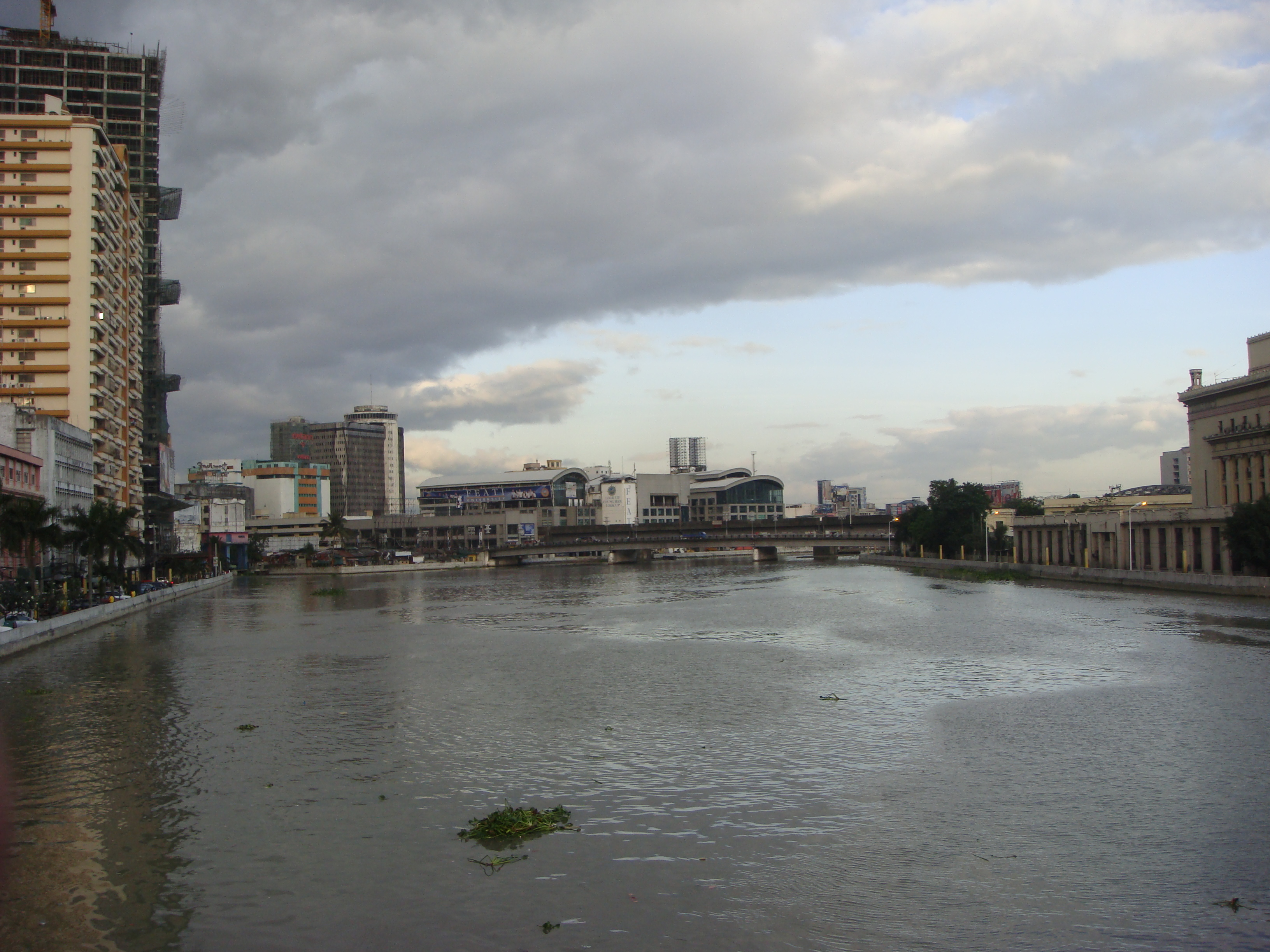 Overview of Sta. Cruz bridge from Jones Bridge (over Pasig River in Manila).[1]